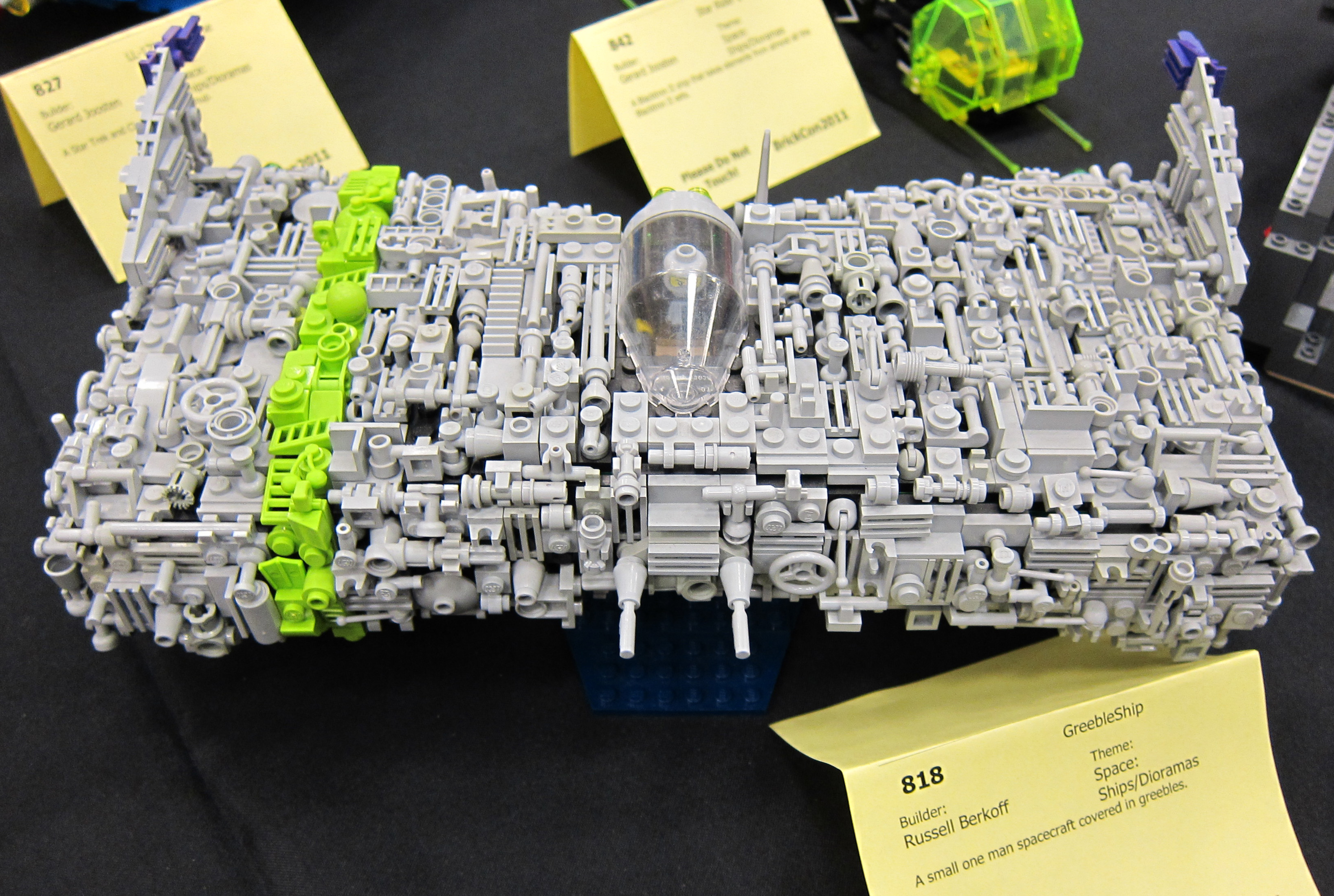 Greeble Ship